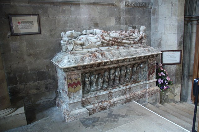 Archbishop Edwyn Sandys Alabaster tomb to Archbishop of York Edwyn Sandys, died 1588 in the north transept of Southwell Minster, his wife, six sons and two daughters 'weep' below